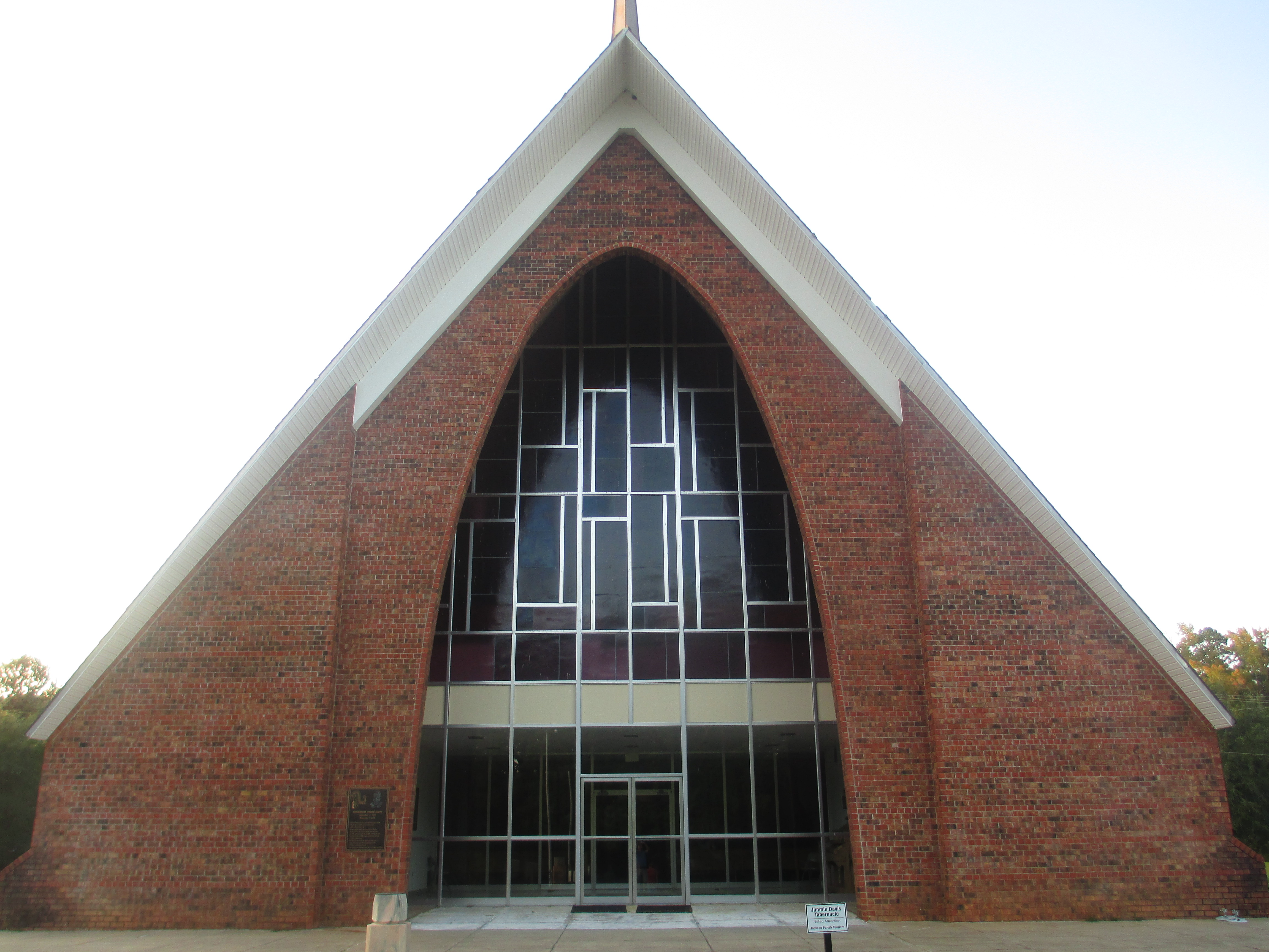 I took photo with Canon camera of Jimmie Davis Tabernacle (front view) in Jackson Parish, LA.